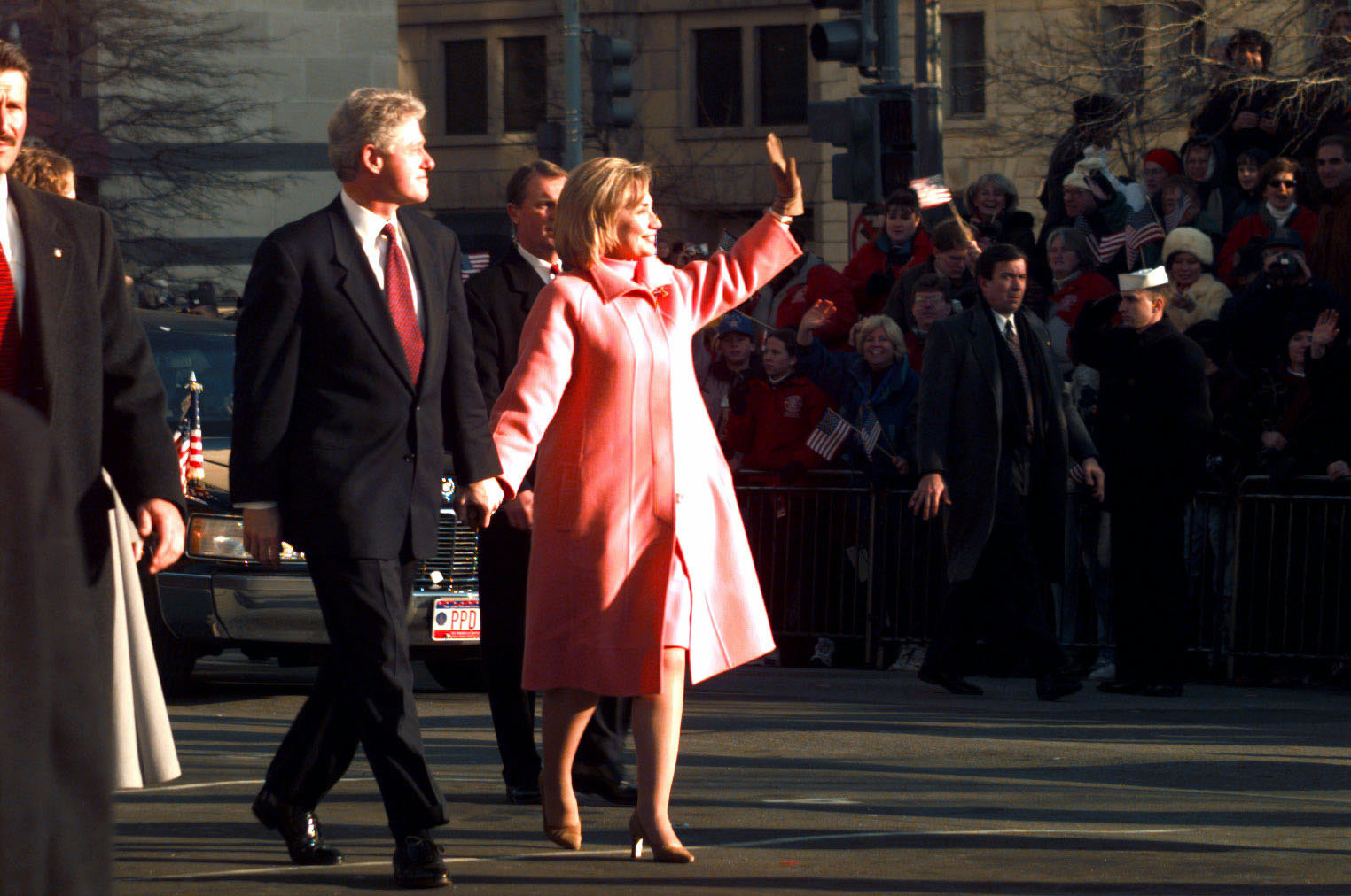 President William Jefferson Clinton and First Lady Hillary Rodham Clinton wave to the crowd during the Presidential Inaugural Parade. VIRIN: 970120-N-7660S-007